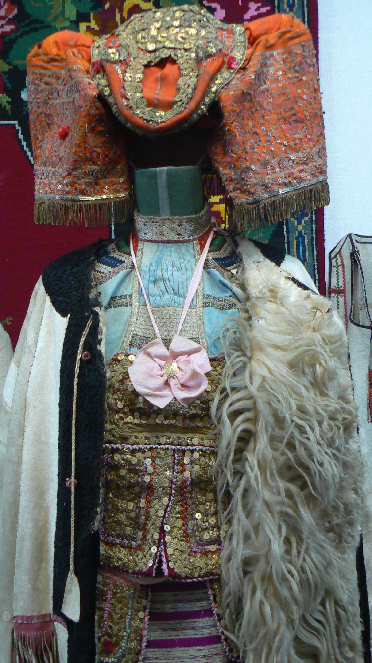 19 century female costume of a Banat Bulgarian woman from Vratsa region. Exhibits of the Ethnographic complex "Saint Sophronius of Vratsa". Vratsa, Bulgaria